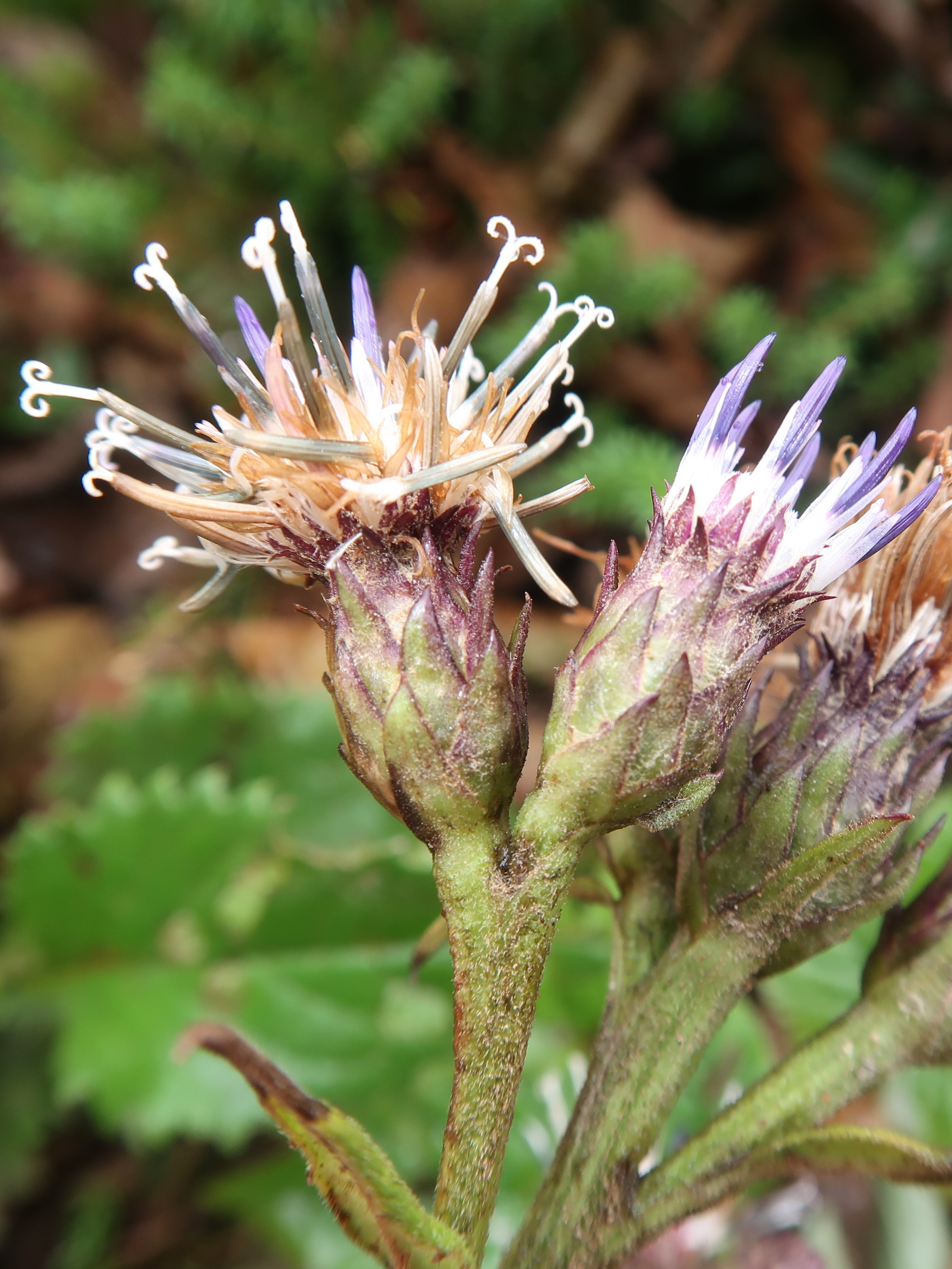 Saussurea fuboensis, Mount Fubo-san, Miyagi pref., Japan